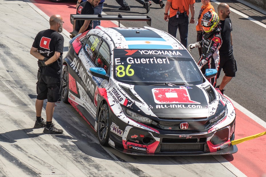 500px provided description: FIA World Touring Car Cup 2018 Circuit Racing Hungaroring [#cup ,#city ,#people ,#street ,#car ,#man ,#500px ,#sport ,#peace ,#picture ,#world ,#photography ,#touring ,#job ,#color image ,#fia ,#follow ,#photooftheday ,#chrisgaramvolgyi]